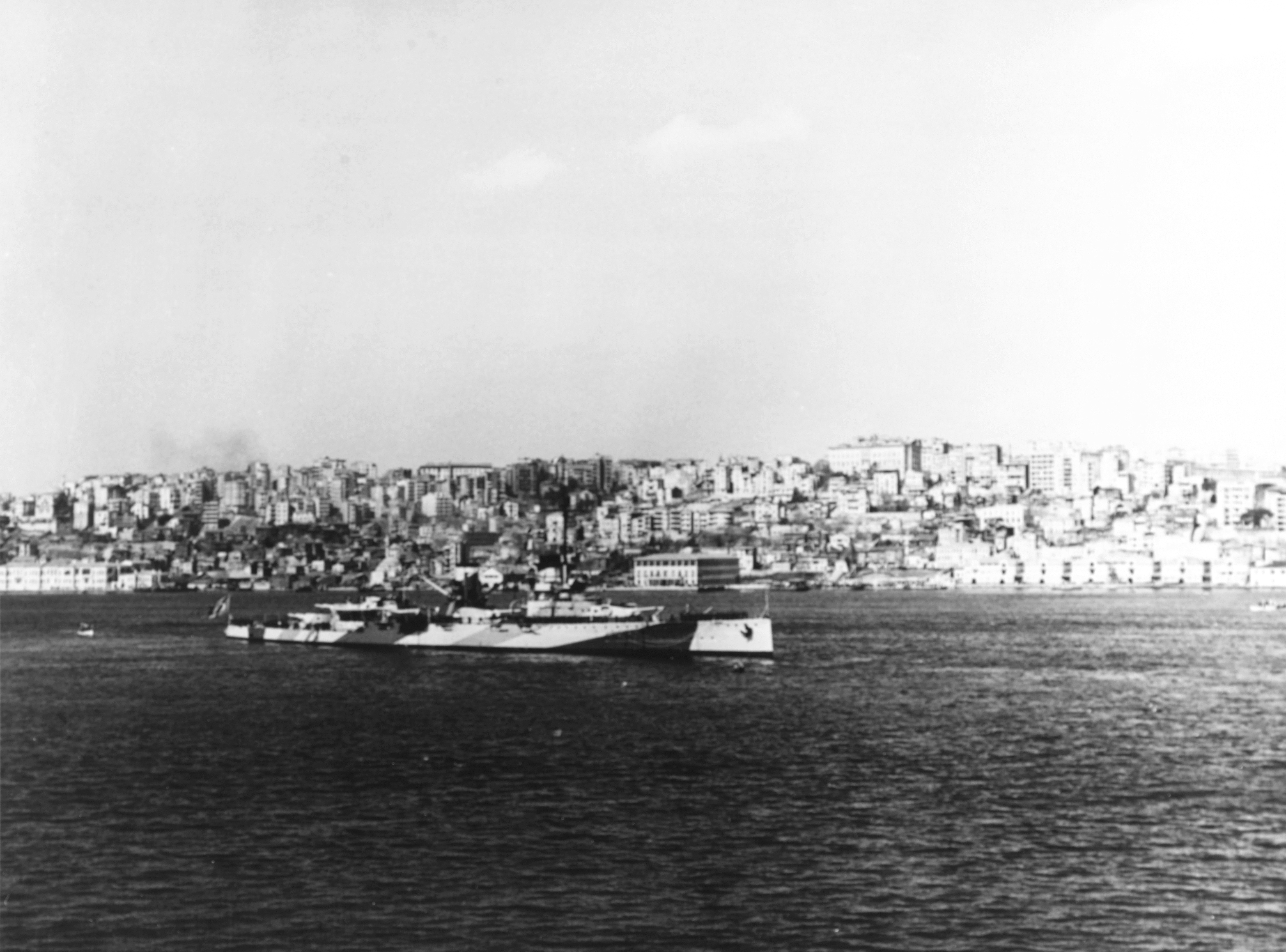 The Turkish battlecruiser Yavuz (formerly the German Goeben) off Istanbul, Turkey, in April 1946, during the visit of the U.S. Navy battleship USS Missouri (BB-63) there.